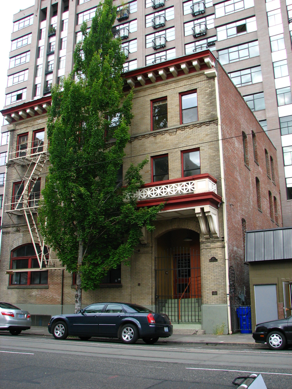 The Portland Buddhist Church at 312 Northwest 10th Avenue in Portland, Oregon, United States, is listed on the US National Register of Historic Places (NRHP).